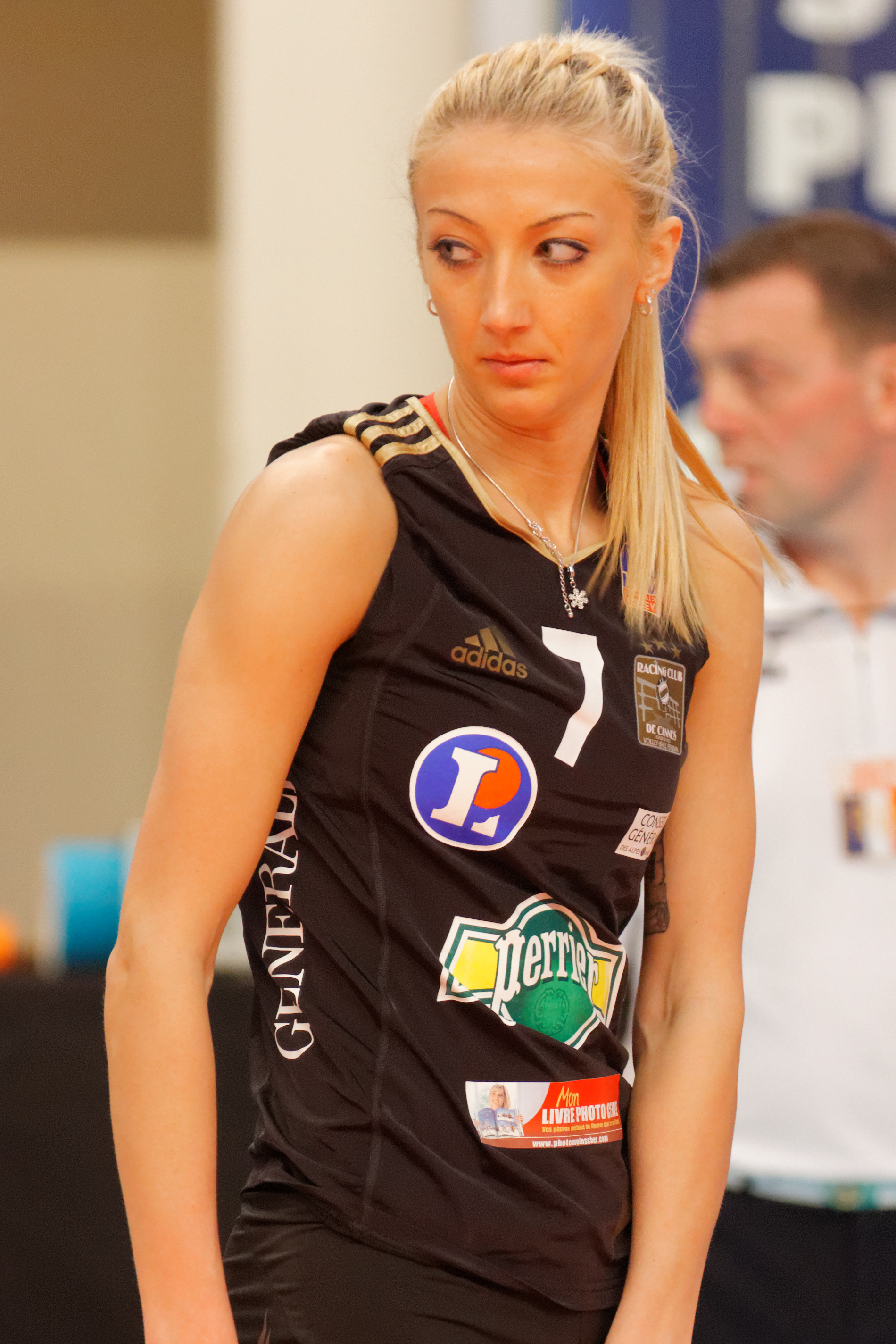 Final of the Volleyball French Cup, Racing Club de Cannes - Stella Étoile Sportive Calais, March 30, 2013.